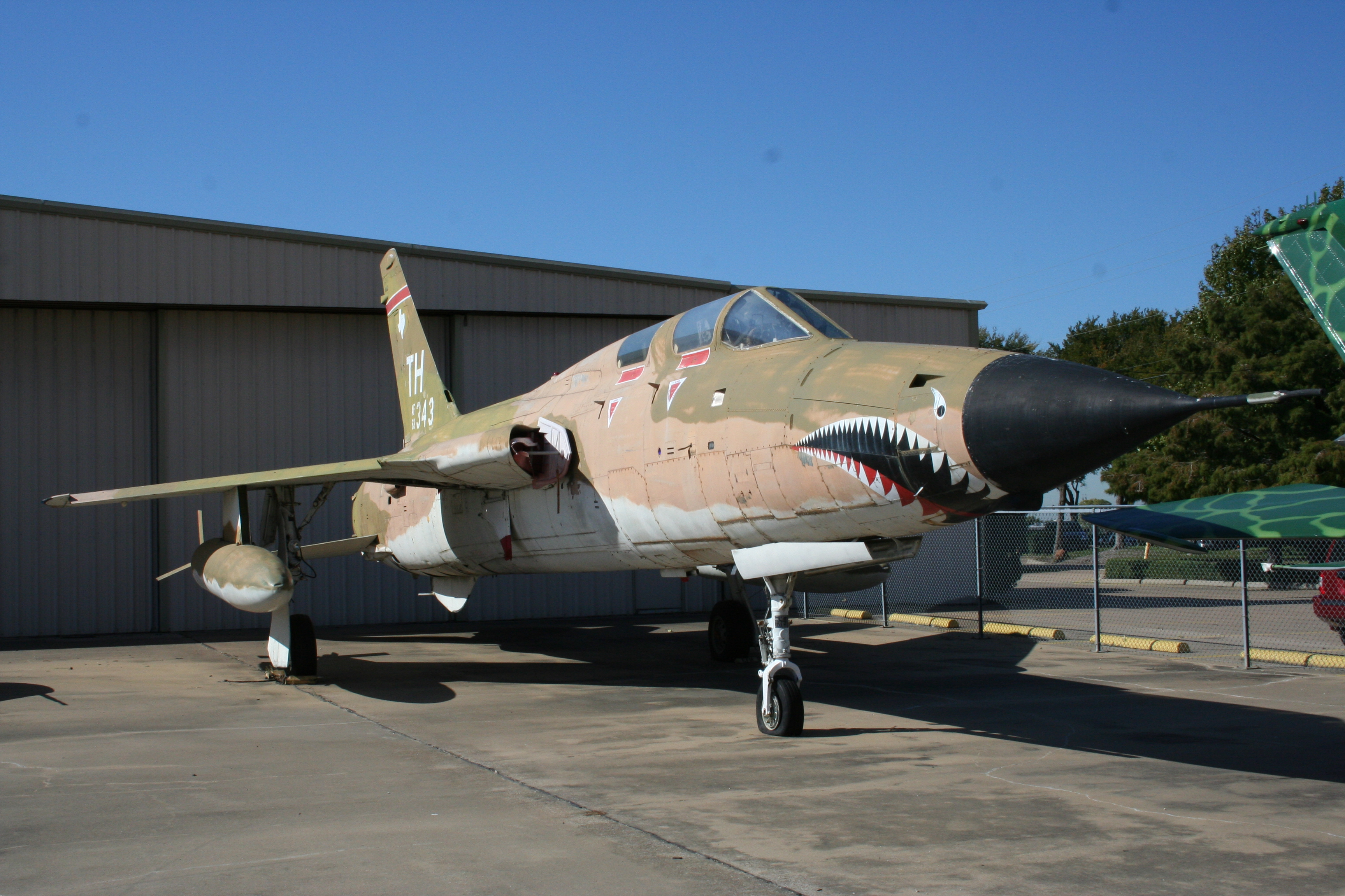 Cavanaugh Flight Museum-2008-10-29-096